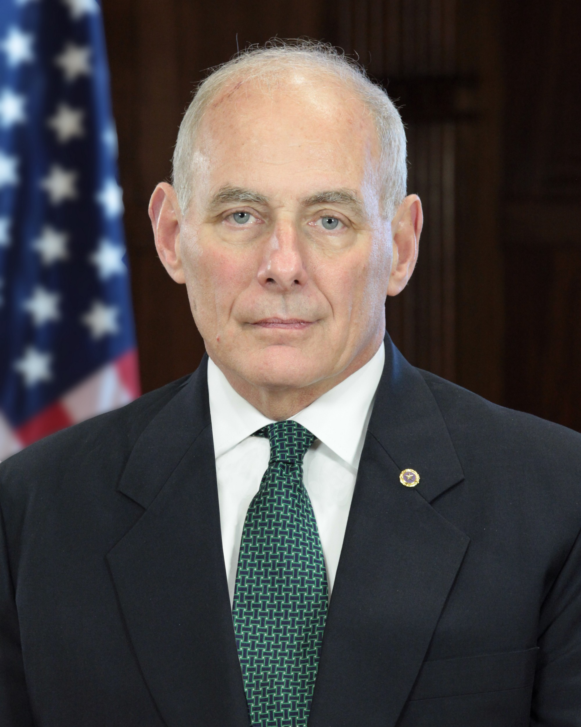 Portrait of John F. Kelly, President-elect Donald Trump's choice for Secretary of Homeland Security